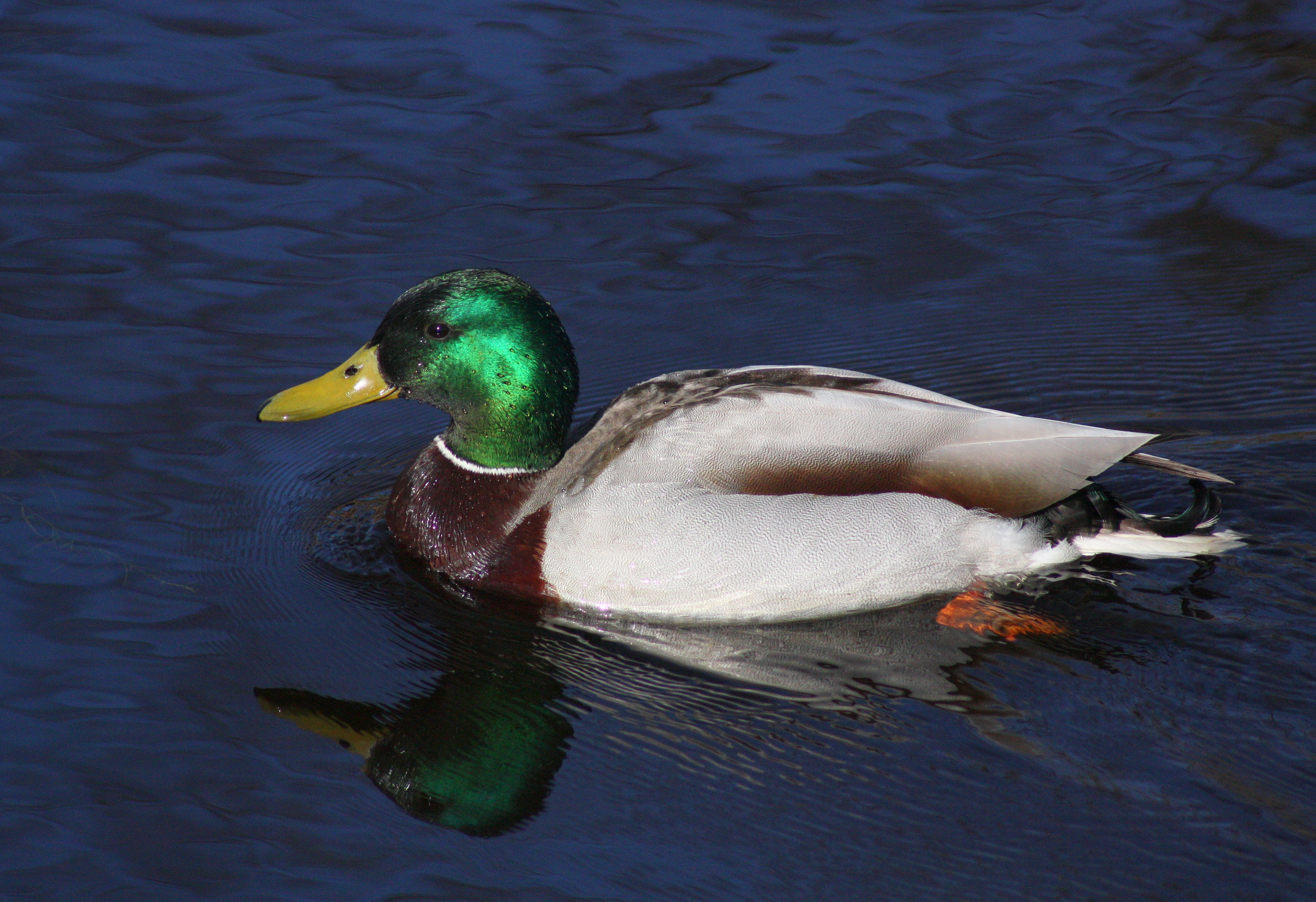 A male mallard (Anas platyrhynchos) in Hupisaaret islands park in Oulu.